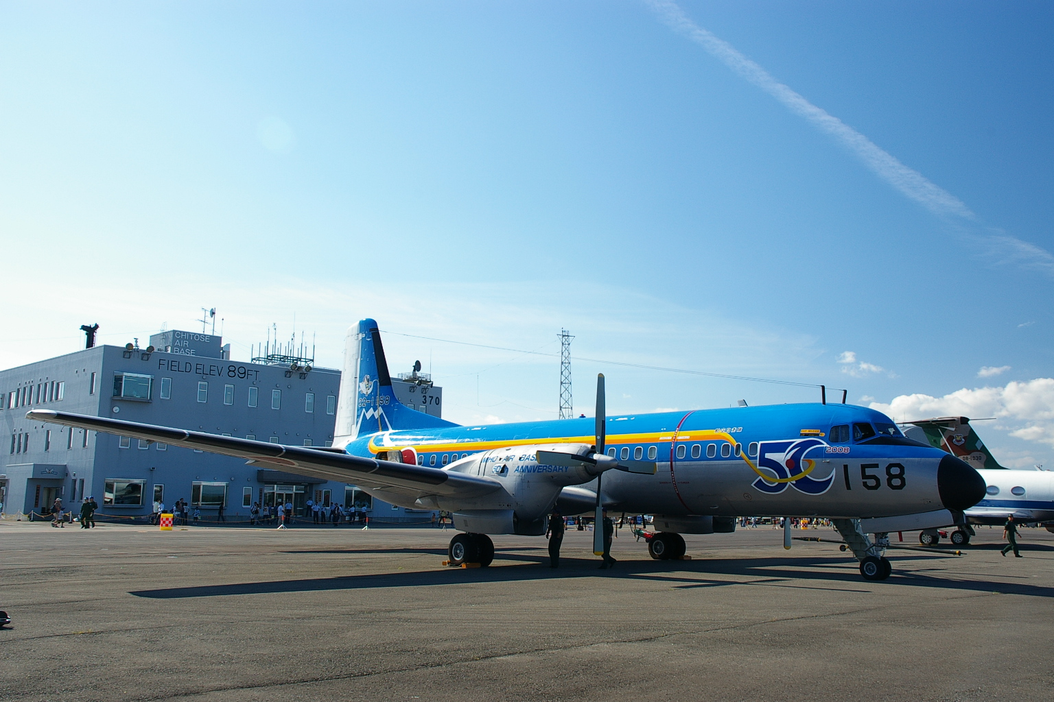 Japan Air Self Defense Force, YS-11P special marking.